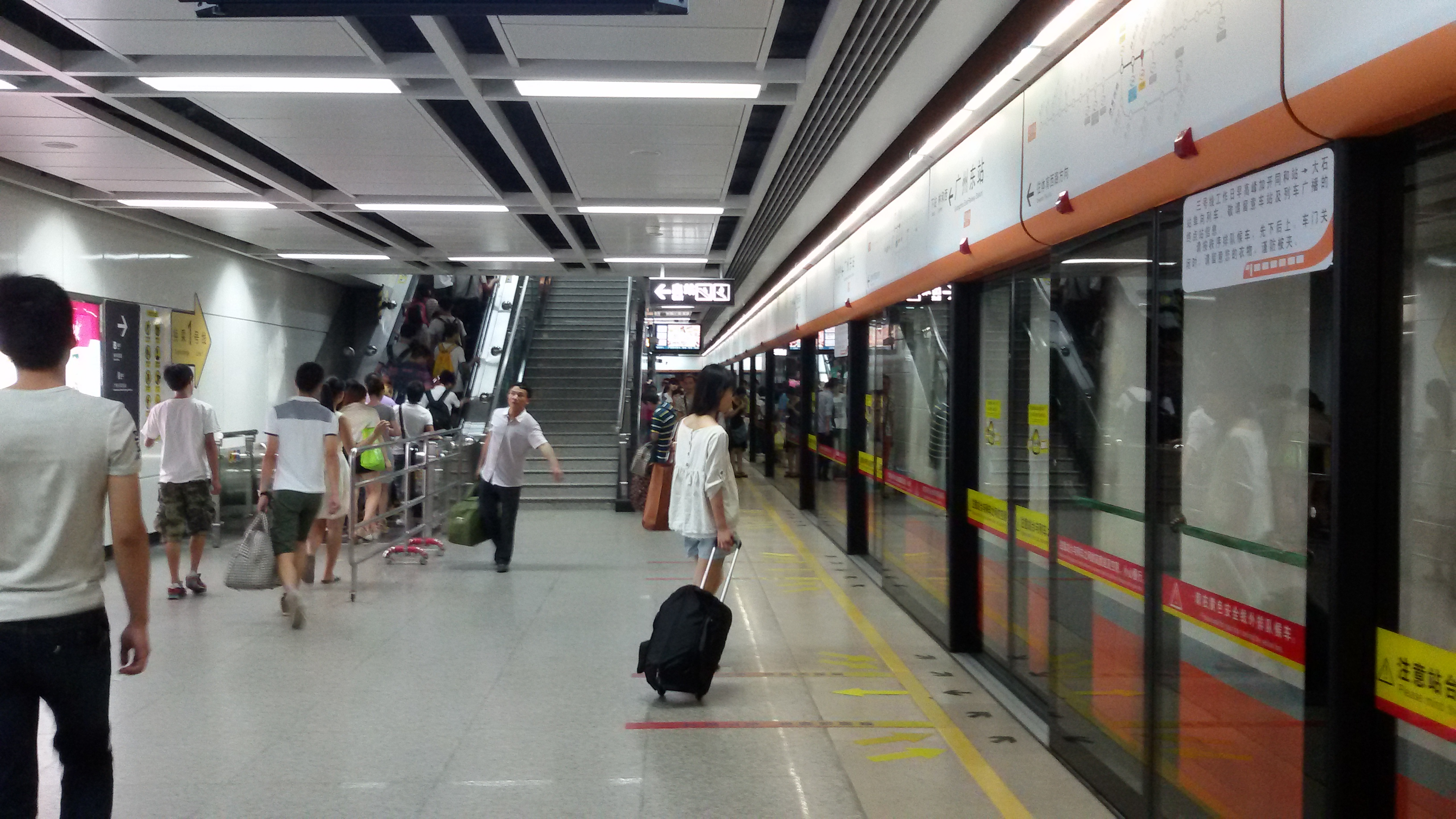 Station platform for Line 3 in Guangzhou East Railway Station, Guangzhou Metro.